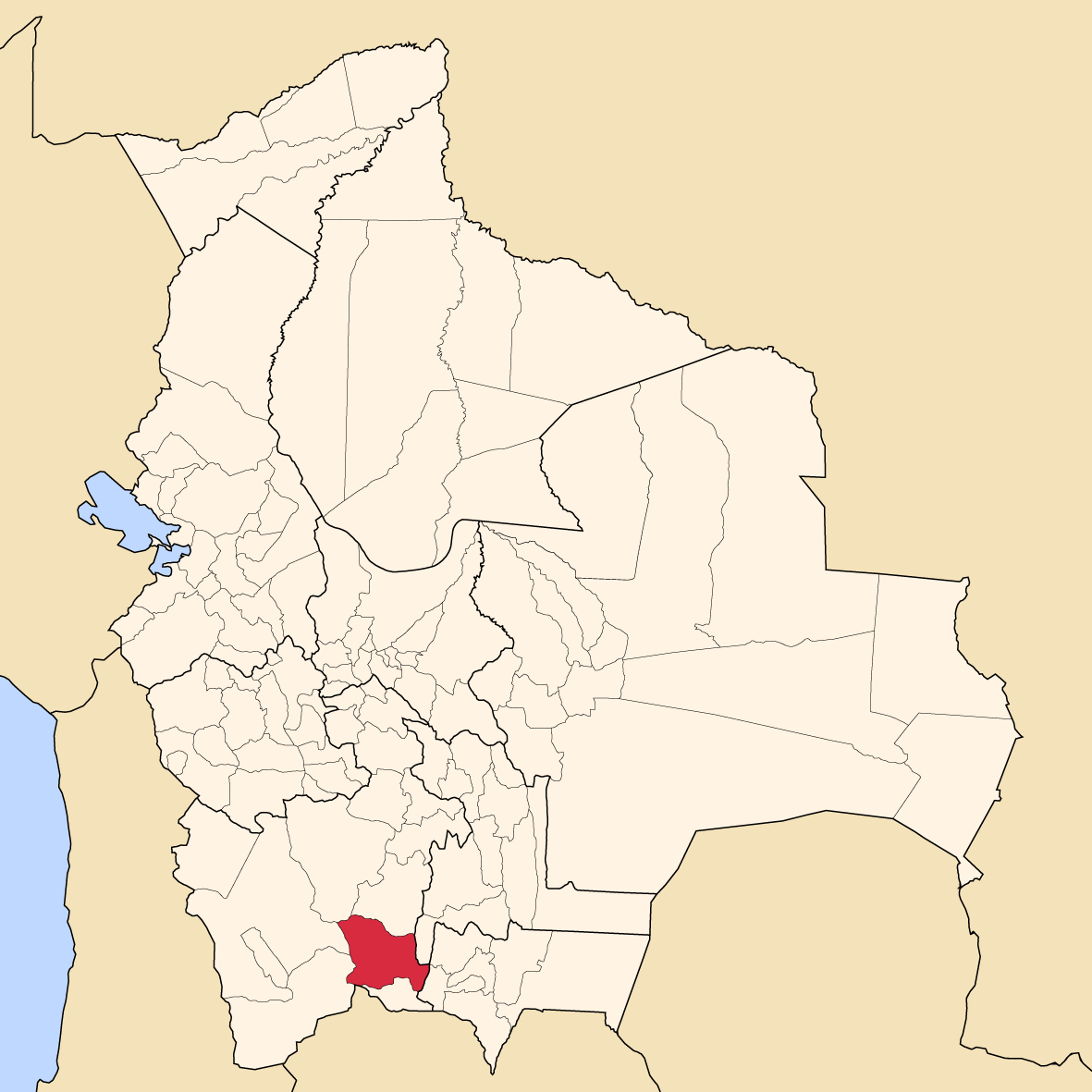 Map of Bolivia showing Sud Chichas province, Potosí